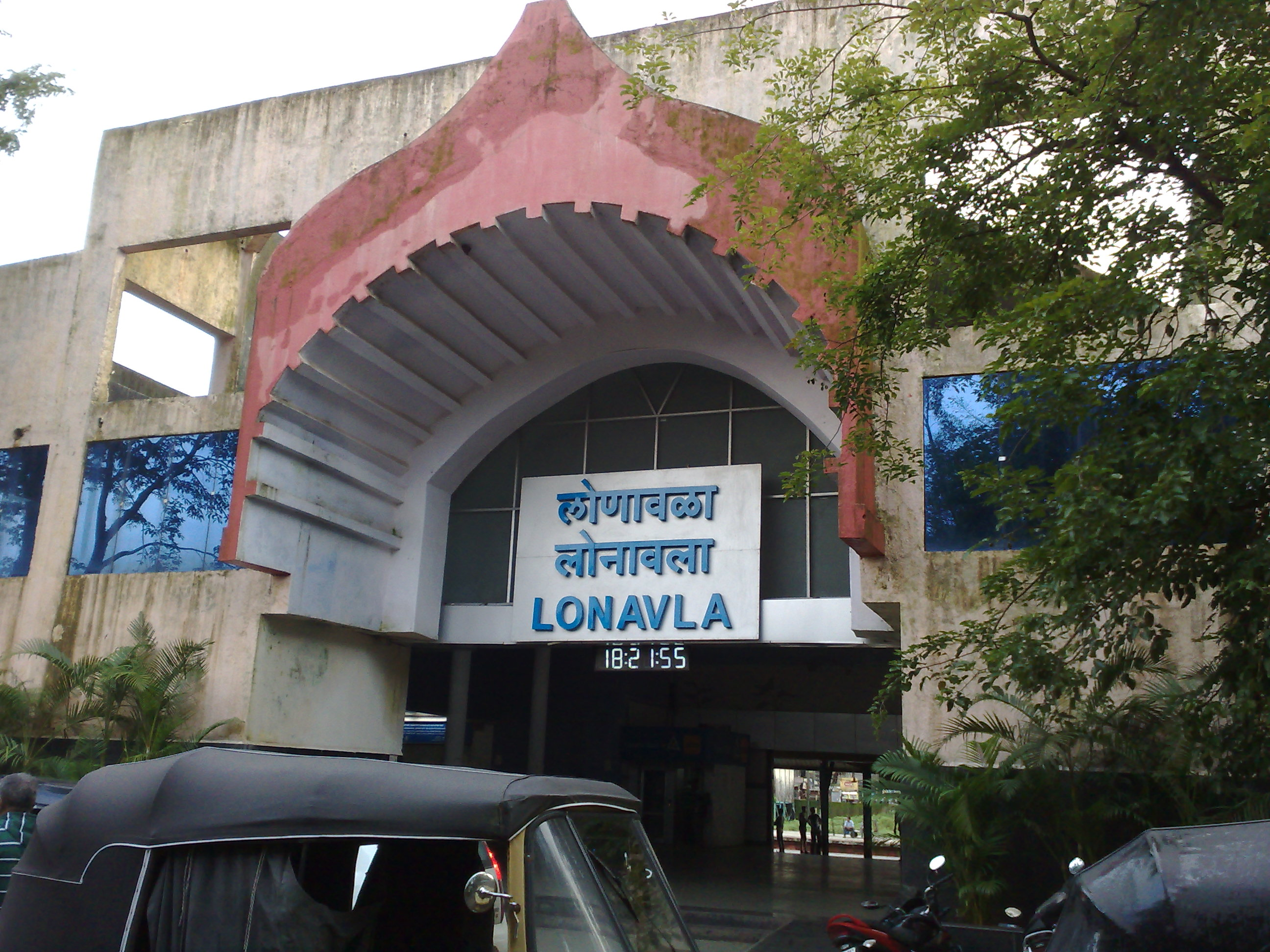 Lonavla railway station - Entrance